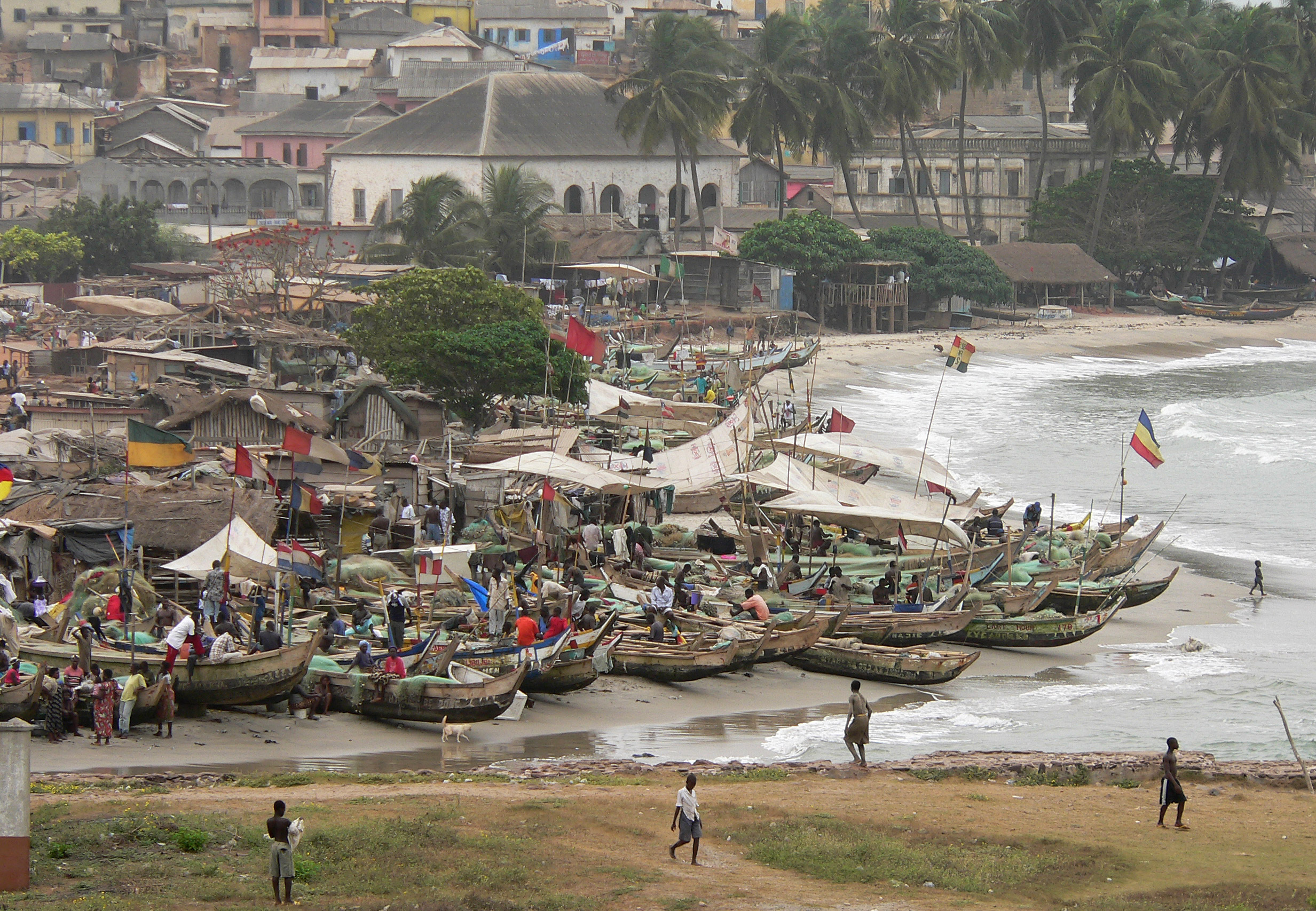 Elmina, fishing boasts; view from the Fort São Jorge da Mina